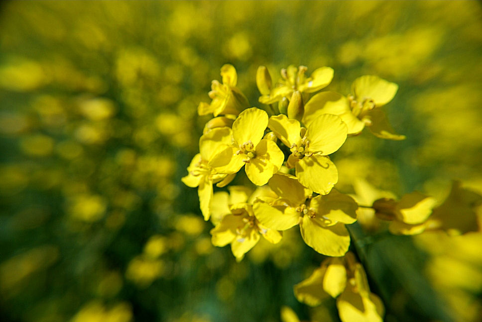 Rape flowers. Kłodzko, Poland